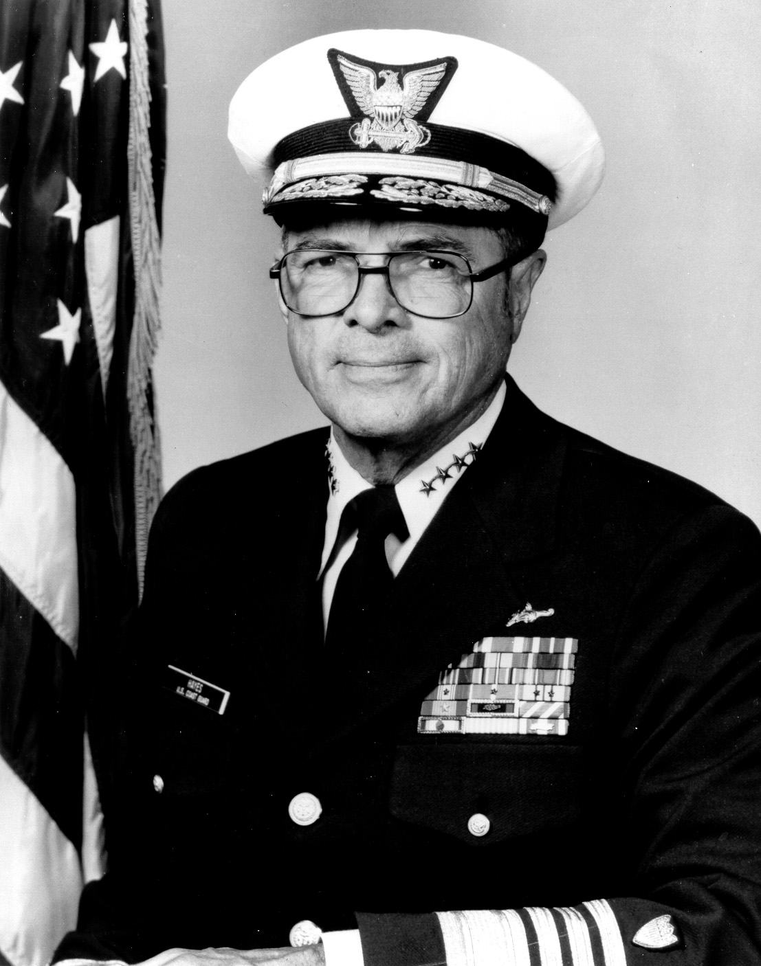 Admiral John B. Hayes, USCG